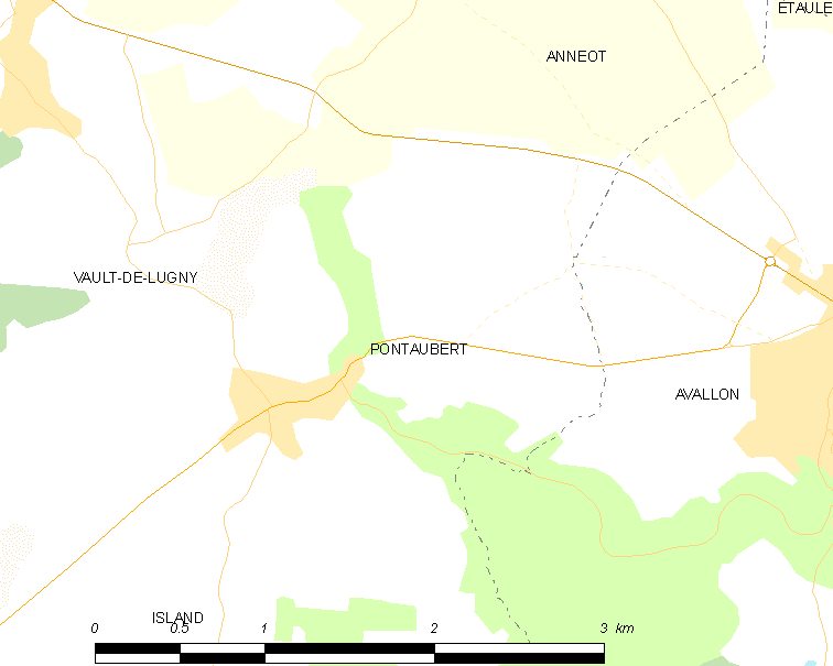 Map of French municipality Pontaubert